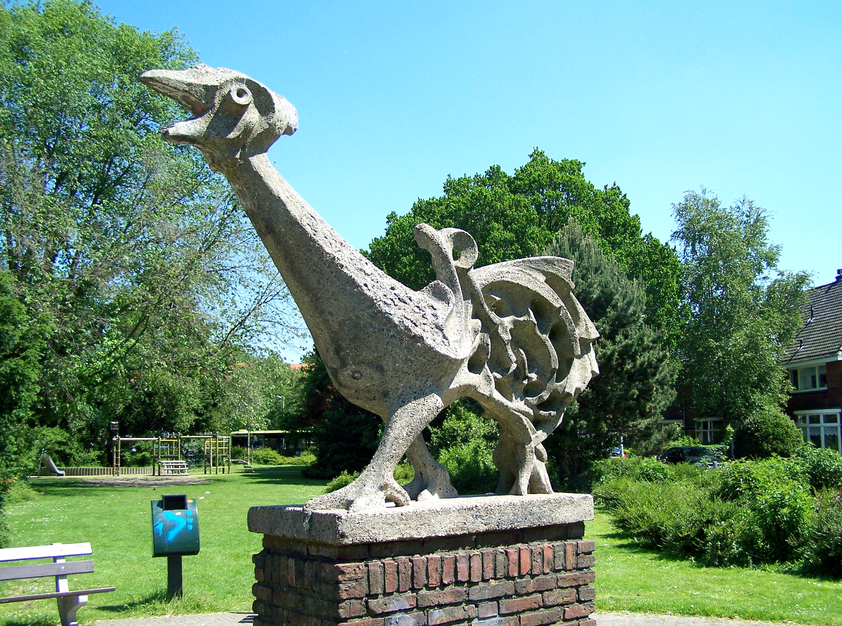 Sculpture "Haan" by Willem Commandeur in 1957, placed at the Dr. Schaepmanplein in Alkmaar.